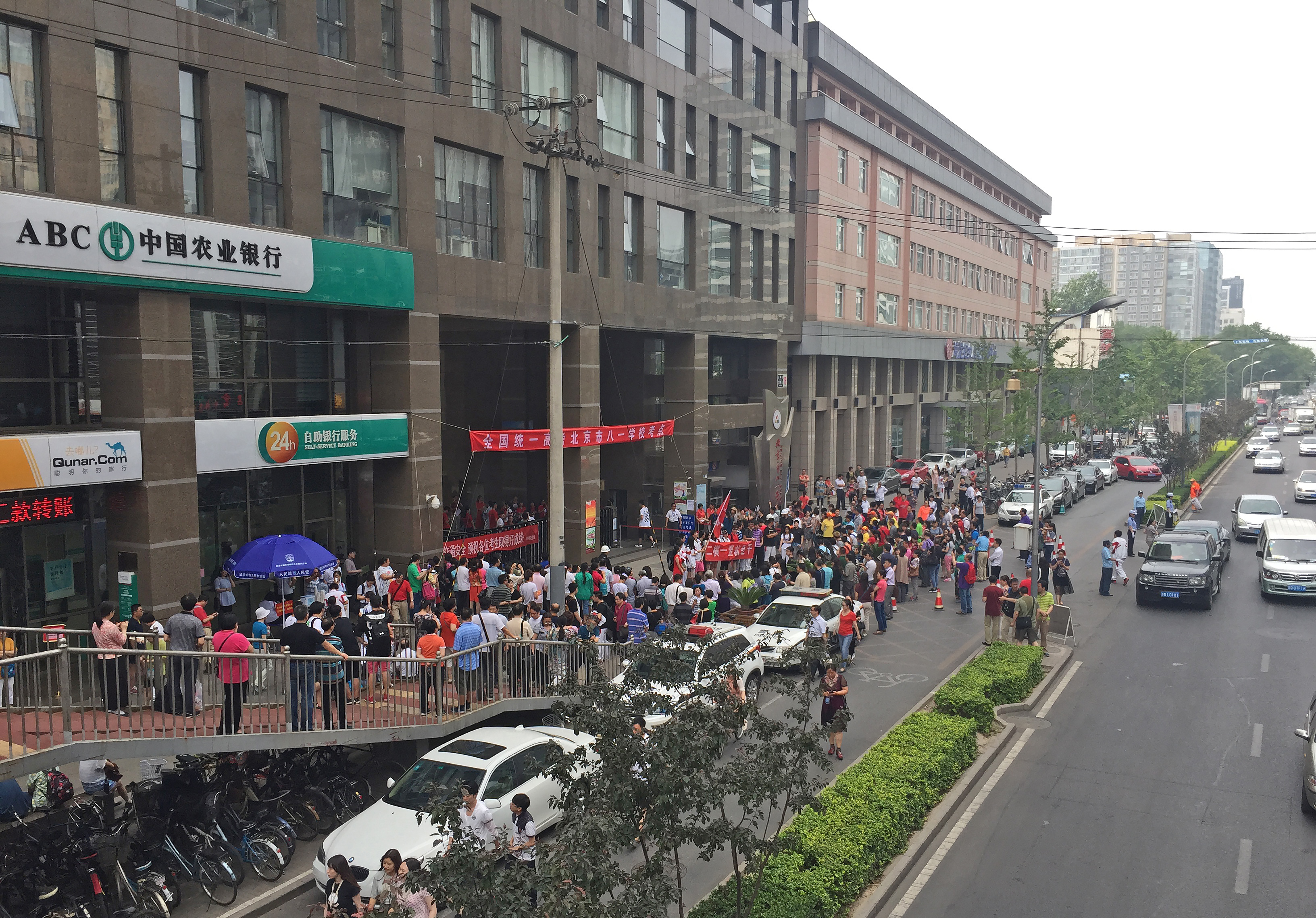 Here are a group of supporters before the English test of National Higher Education Entrance Examination (Gaokao). These are alumni of RDFZ, bearing the banner "Just beat it" and the flag "Reliable".